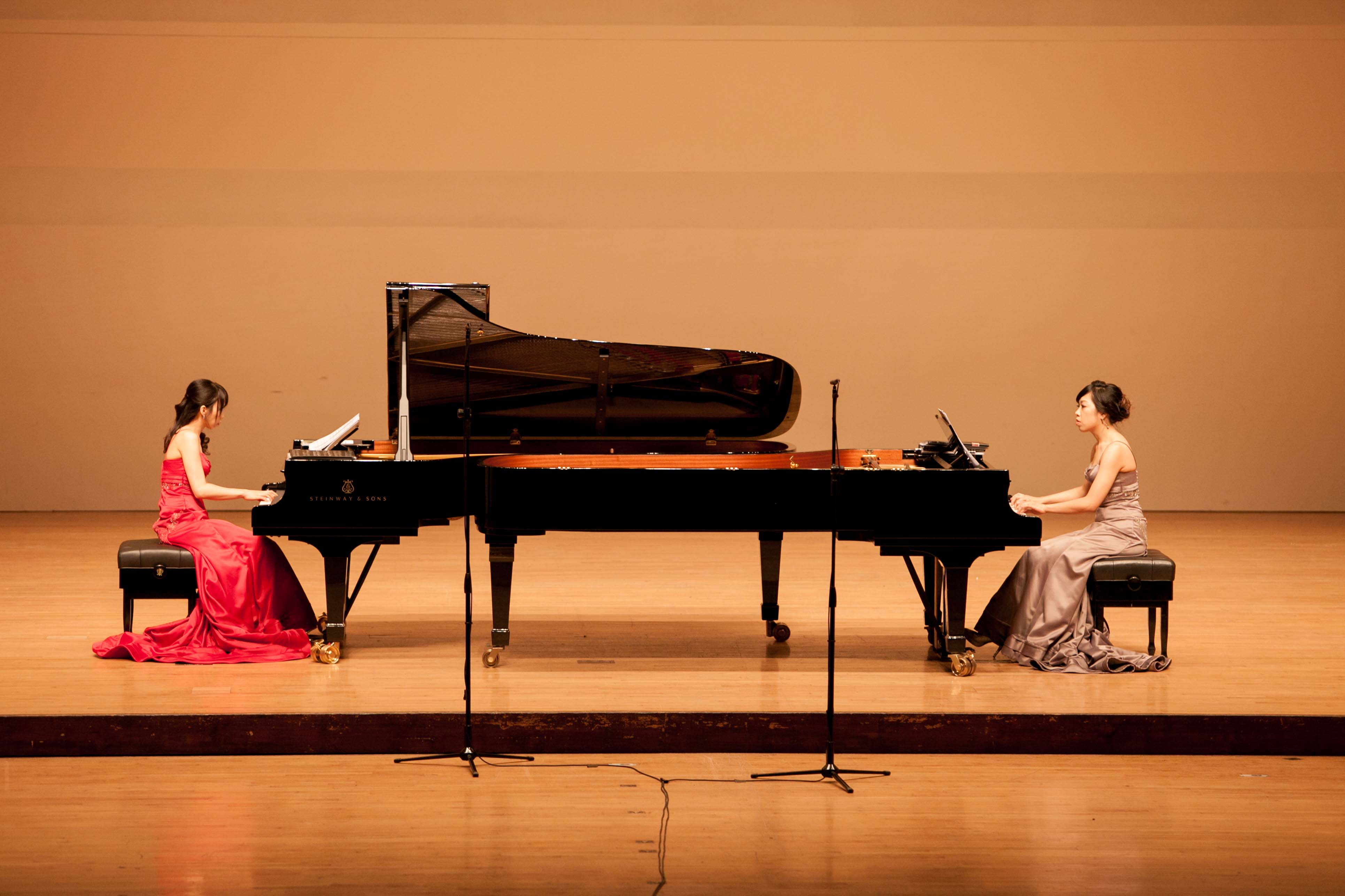 Photo of Australian Piano Duo Live in Concert